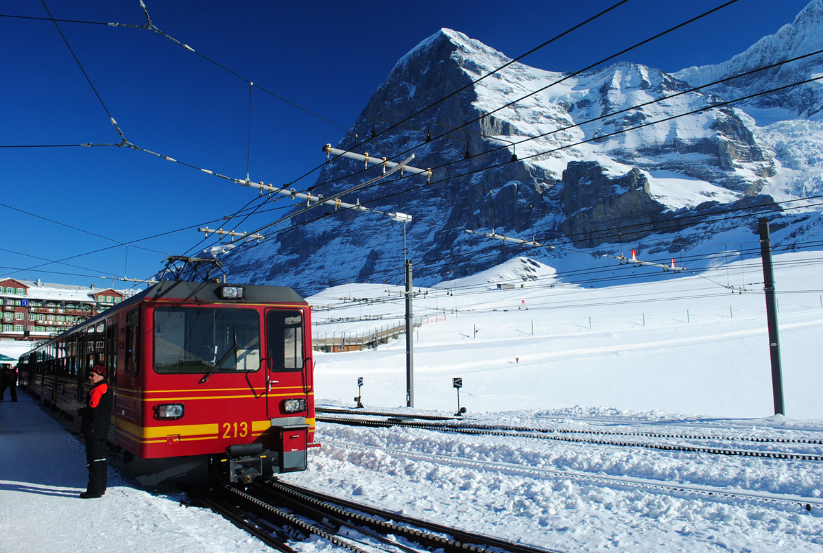 Jungfraubahn at the Kleine Scheidegg railway station with the Eigernordwand in the background